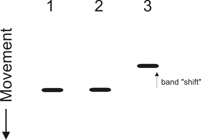 Lane 1 is a negative control, and contains only DNA. Lane 2 contains protein as well as a DNA fragment that,is based on its sequence, does not interact. Lane 3 contains protein and a DNA fragment that does react; the resulting complex is larger, heavier, and slower-moving. The pattern shown in lane 3 is the one that would result if all the DNA were bound and no dissociation of complex occurred during electrophoresis. When these conditions are not met a second band might be seen in lane 3 reflecting the presence of free DNA or the dissociation of the DNA-protein complex. Created by user Ganaaaa 9-30-2005. I, the creator of this image, hereby release it into the public domain. This applies worldwide.